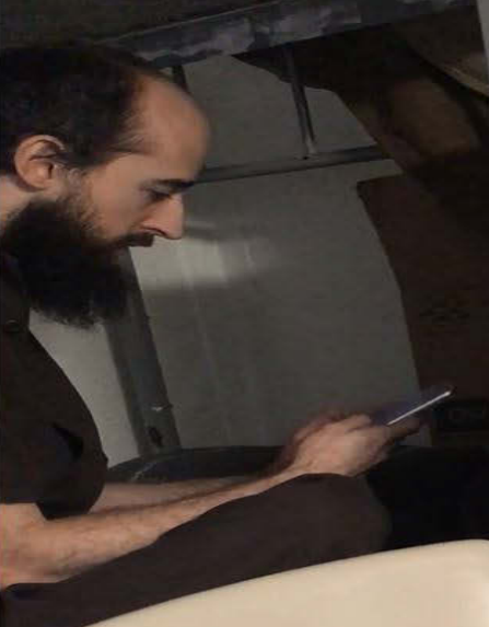 Joshua Schulte is seen using a contraband cell phone while located within the premises of the Metropolitan Correctional Center in Manhattan.